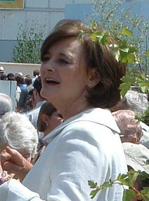 Cherie Blair Many thanks to Danrandom for making the photo available under a Creative Commons License.